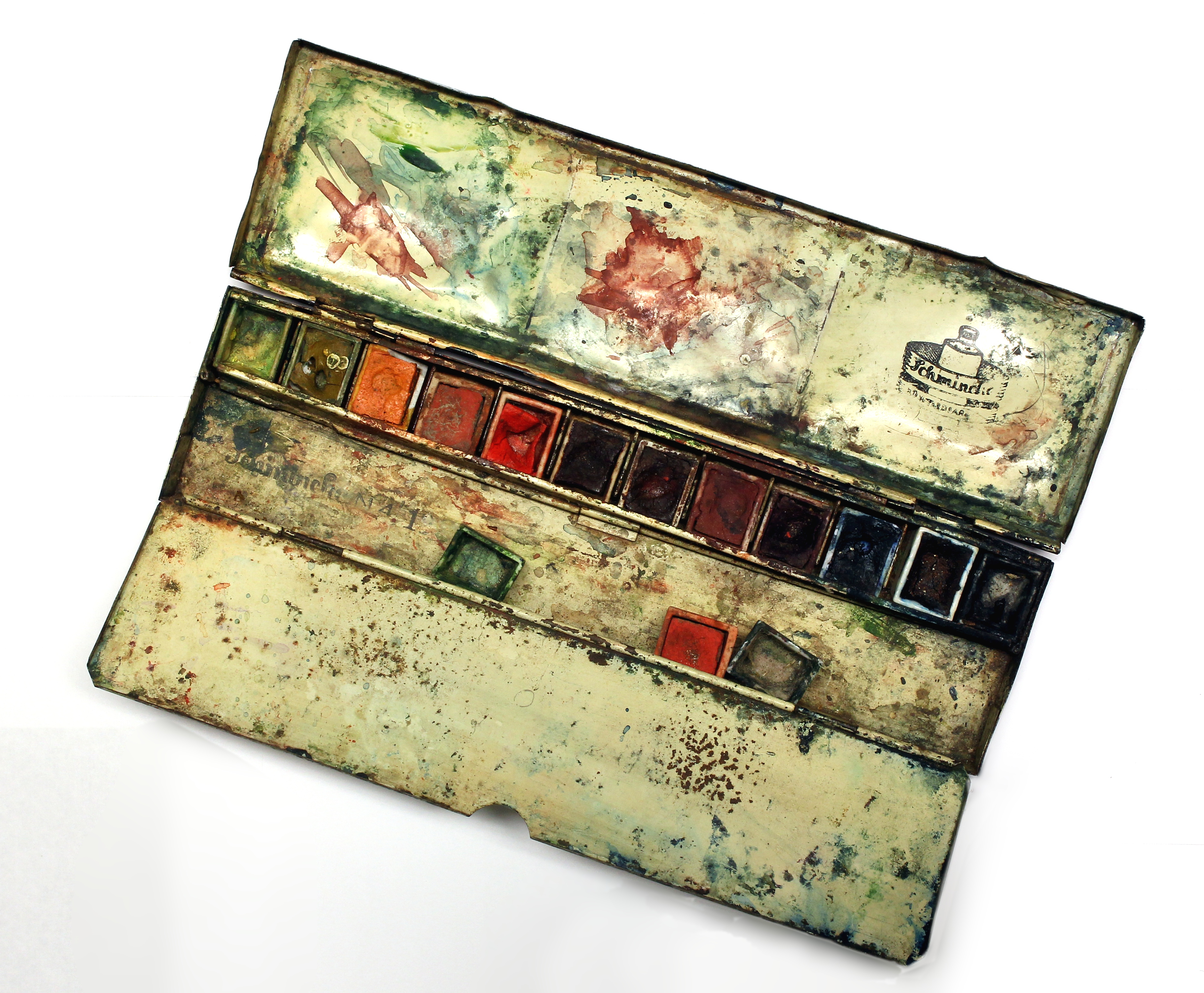 Water color box from Schmincke, around 1935 (estimate)